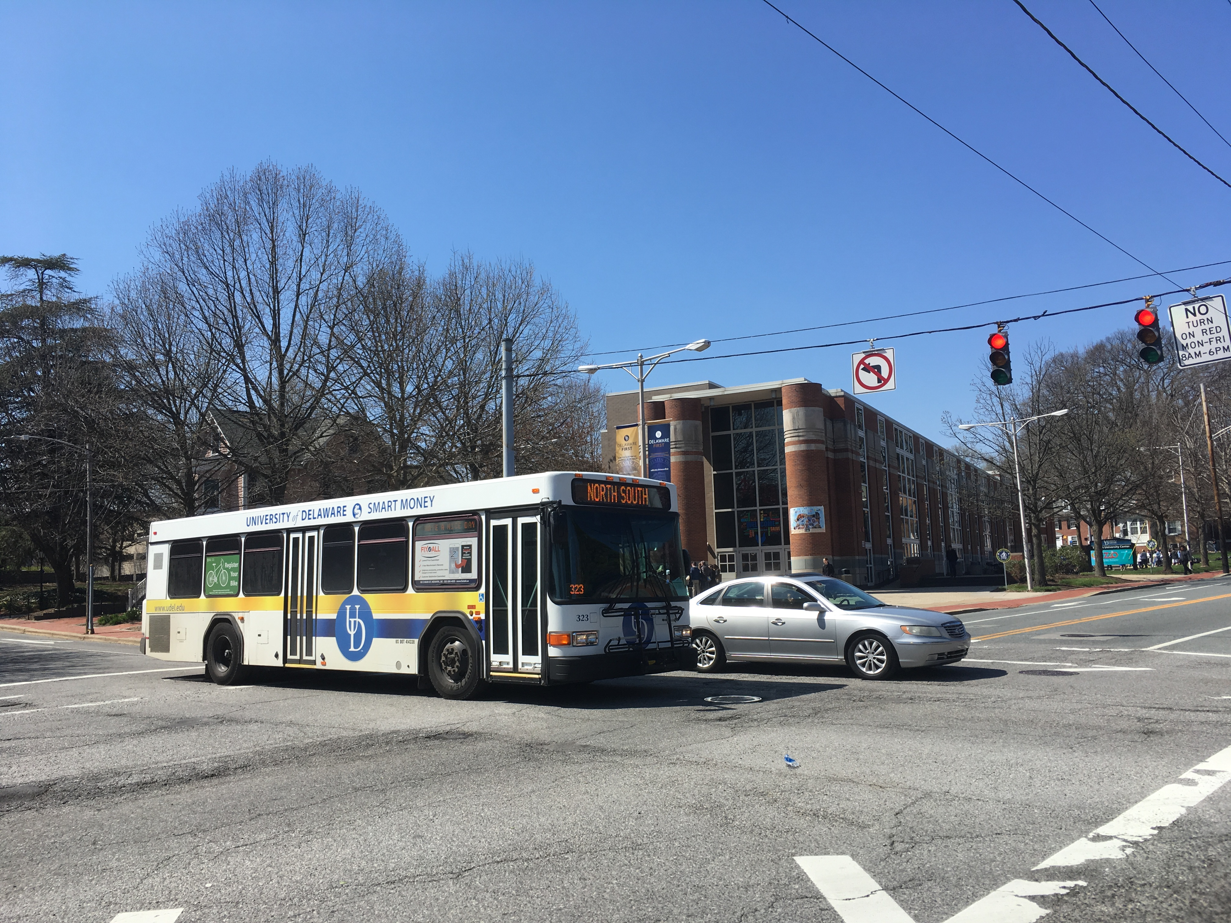 University of Delaware shuttle Gillig Advantage #323 operates along Delaware Avenue at South College Avenue in Newark, Delaware